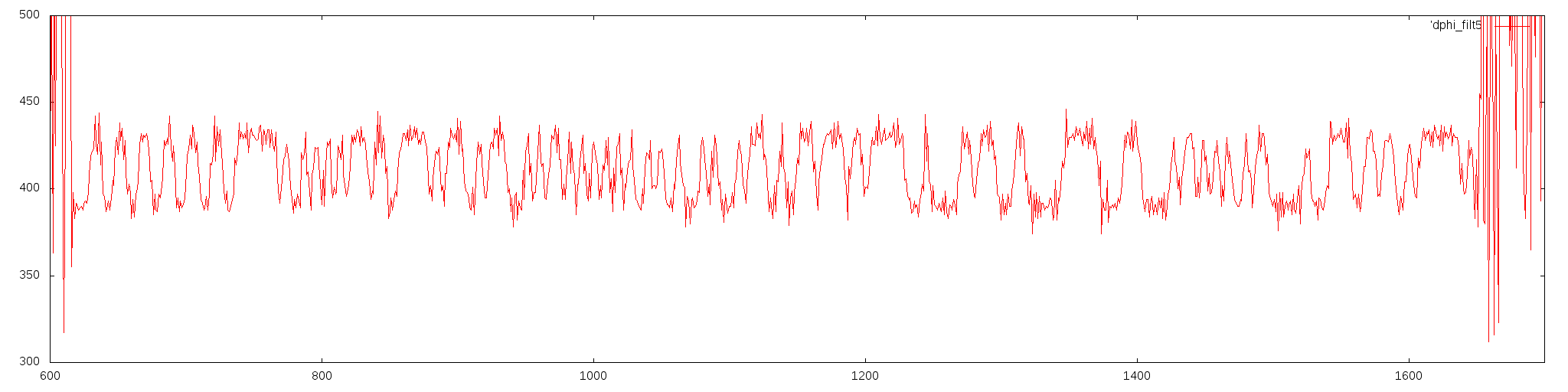 Automatic Identification System frame